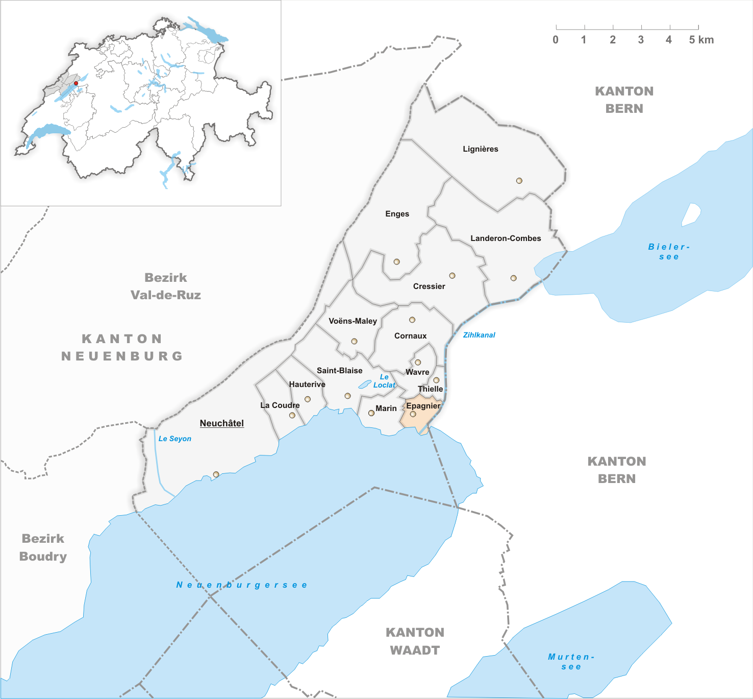 Municipality Epagnier Artist: Tschubby